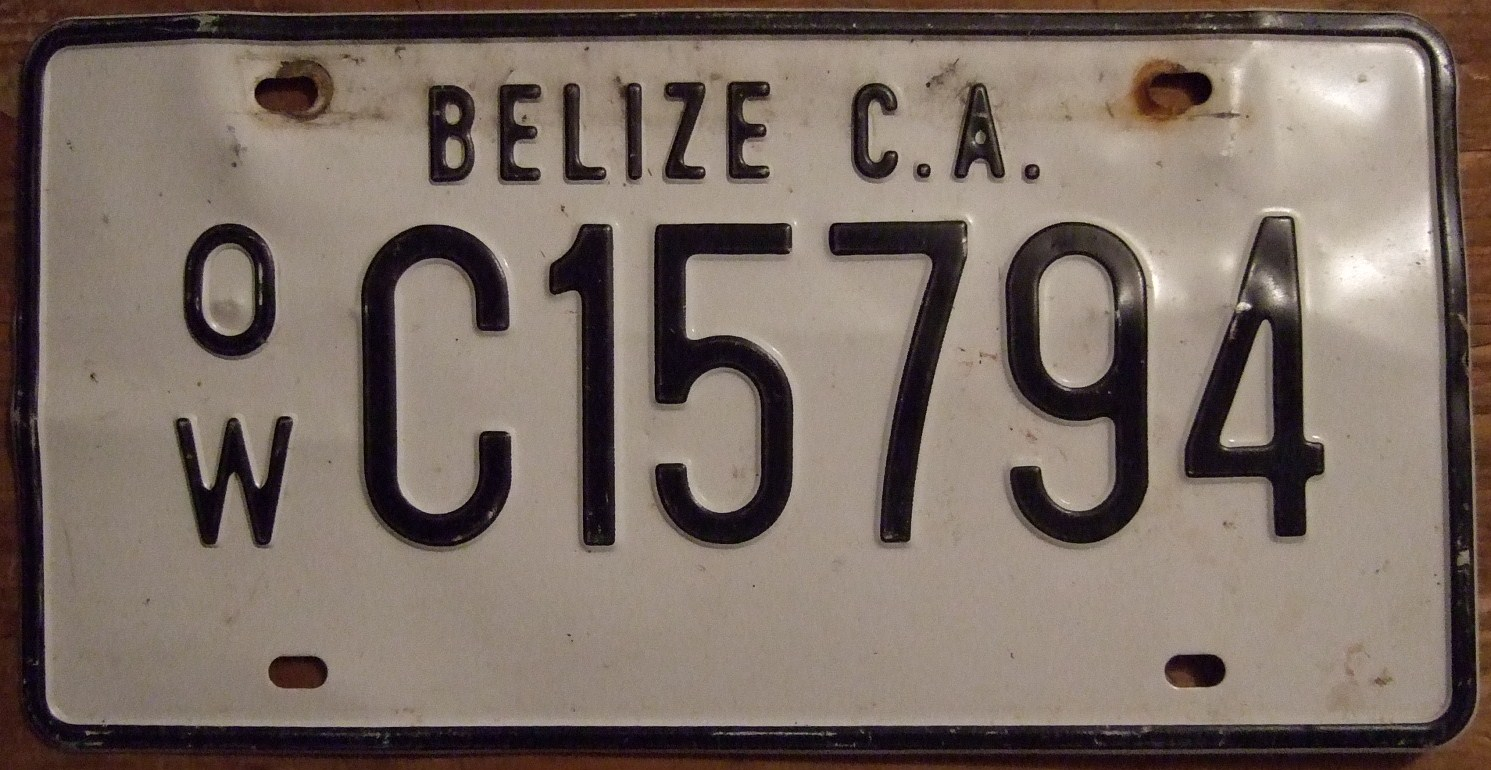 Belize license plate from the Orange Walk "OW" district.